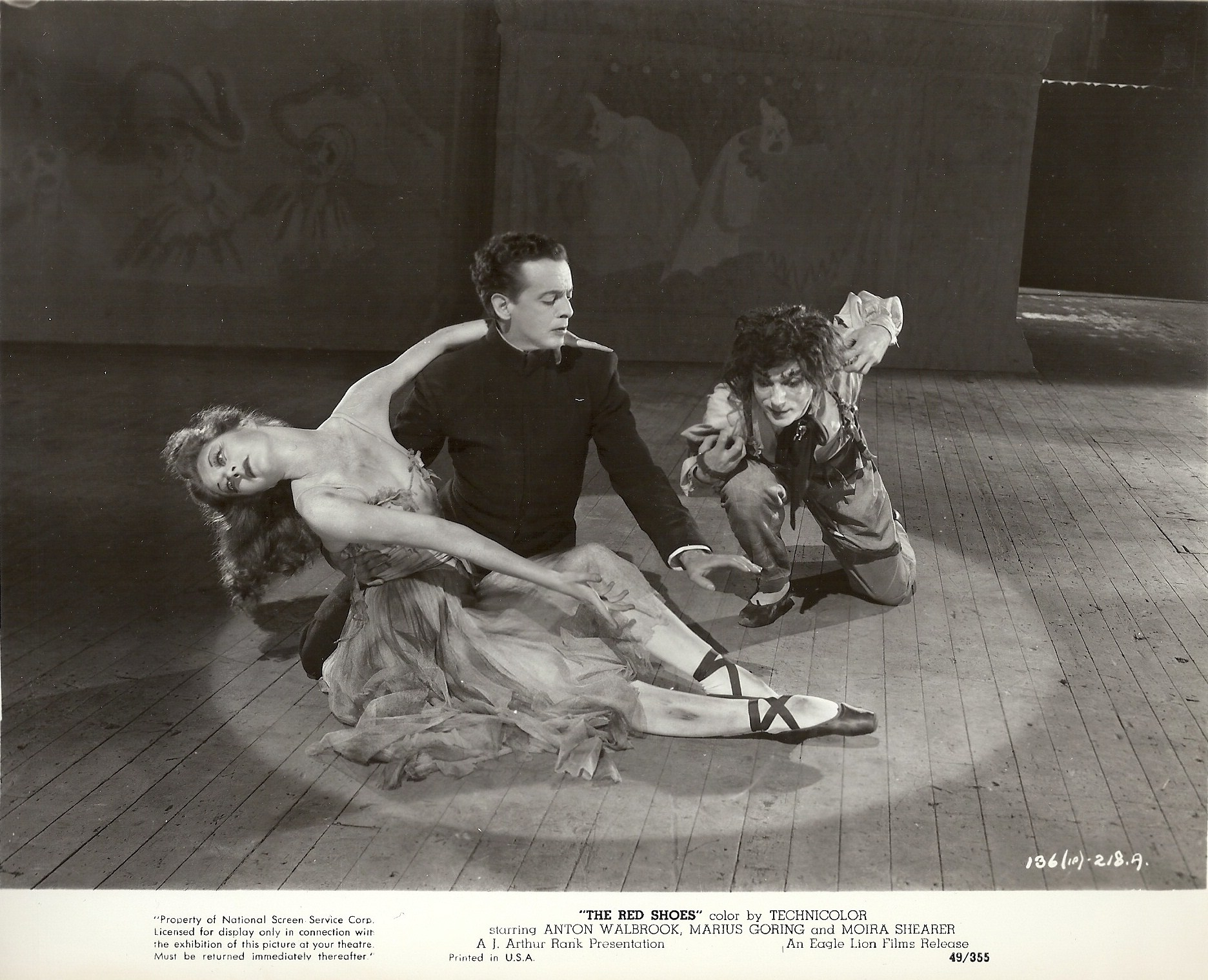 Original publicity still for the film "The Red Shoes." From The Red Shoes (1948) Collection at Ailina Dance Archives.